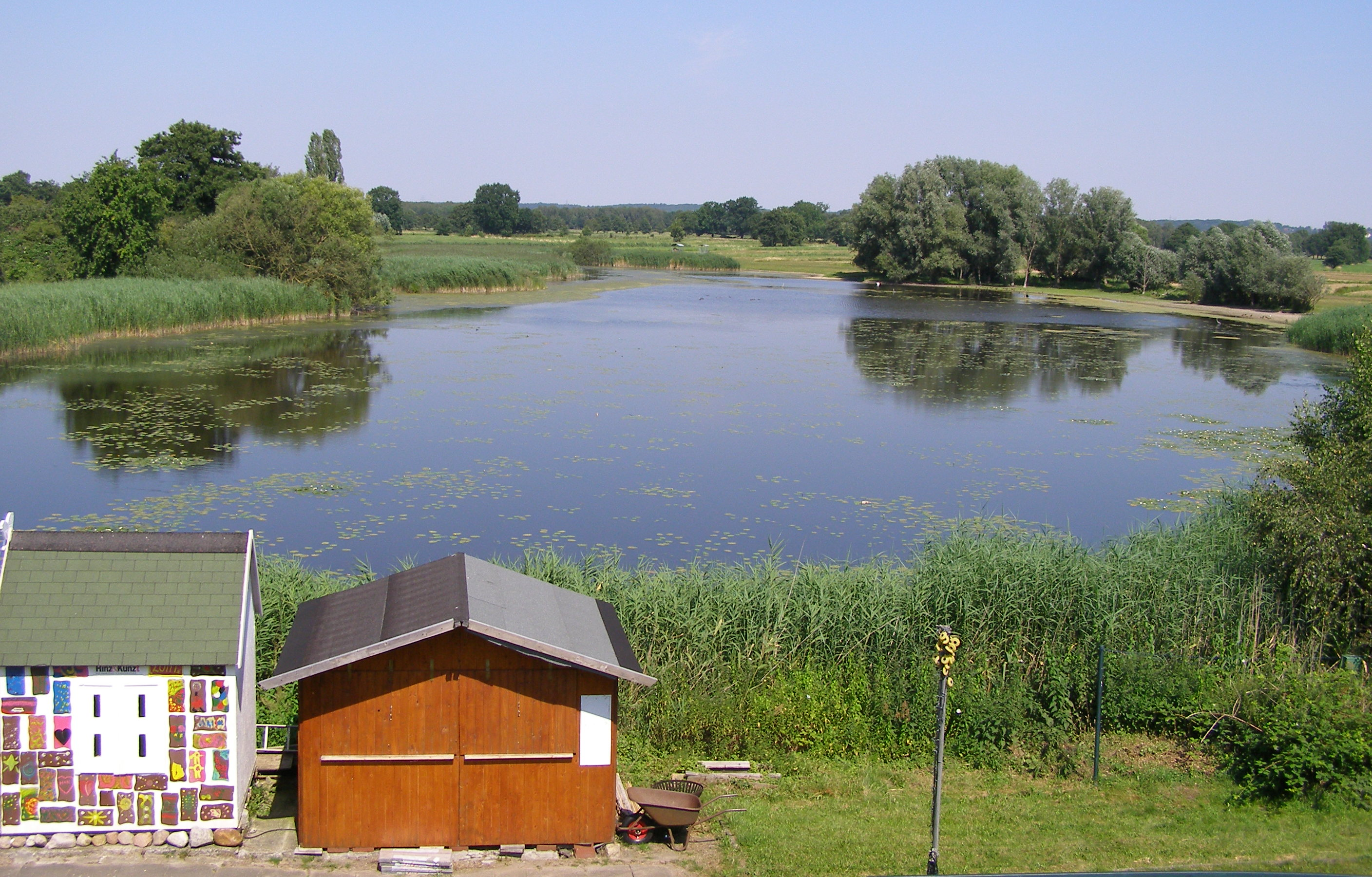 The Borghorster Brack is a kolk in Altengamme, Bergedorf district, Hamburg, part of the nature reserve Borghorster Elblandschaft.